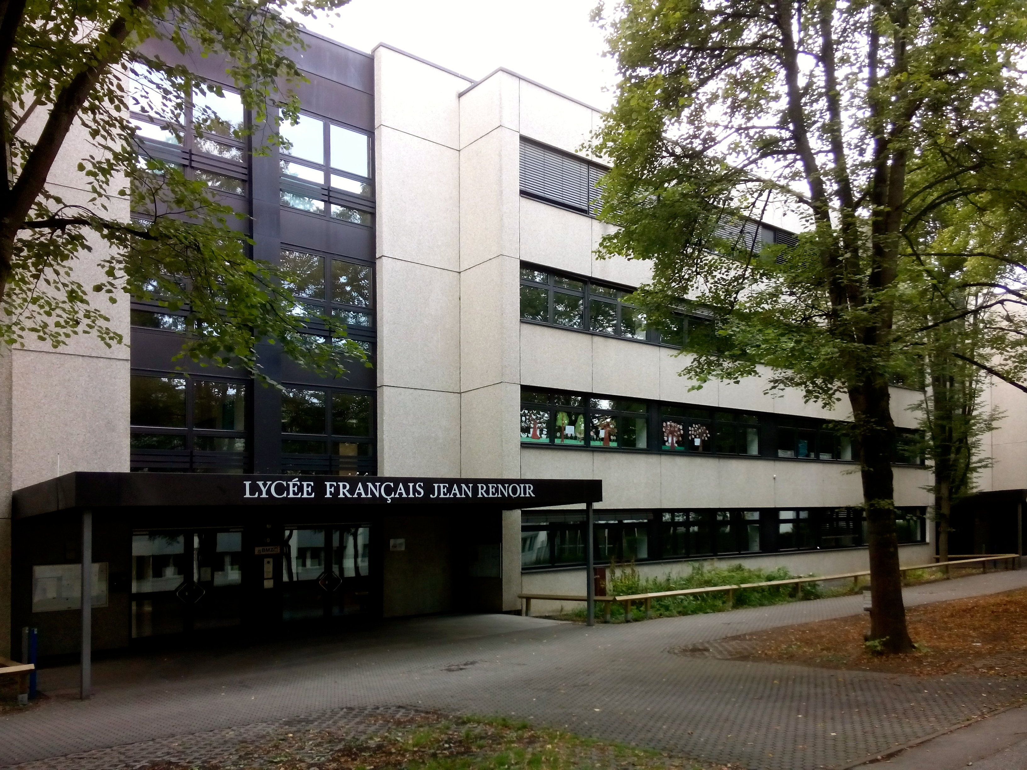 Kindergarten and primary school campus of the Lycée Jean Renoir, at Ungsteiner Straße 50 in Munich.